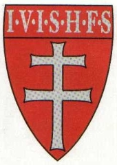 Order of Saint George (Hungary)